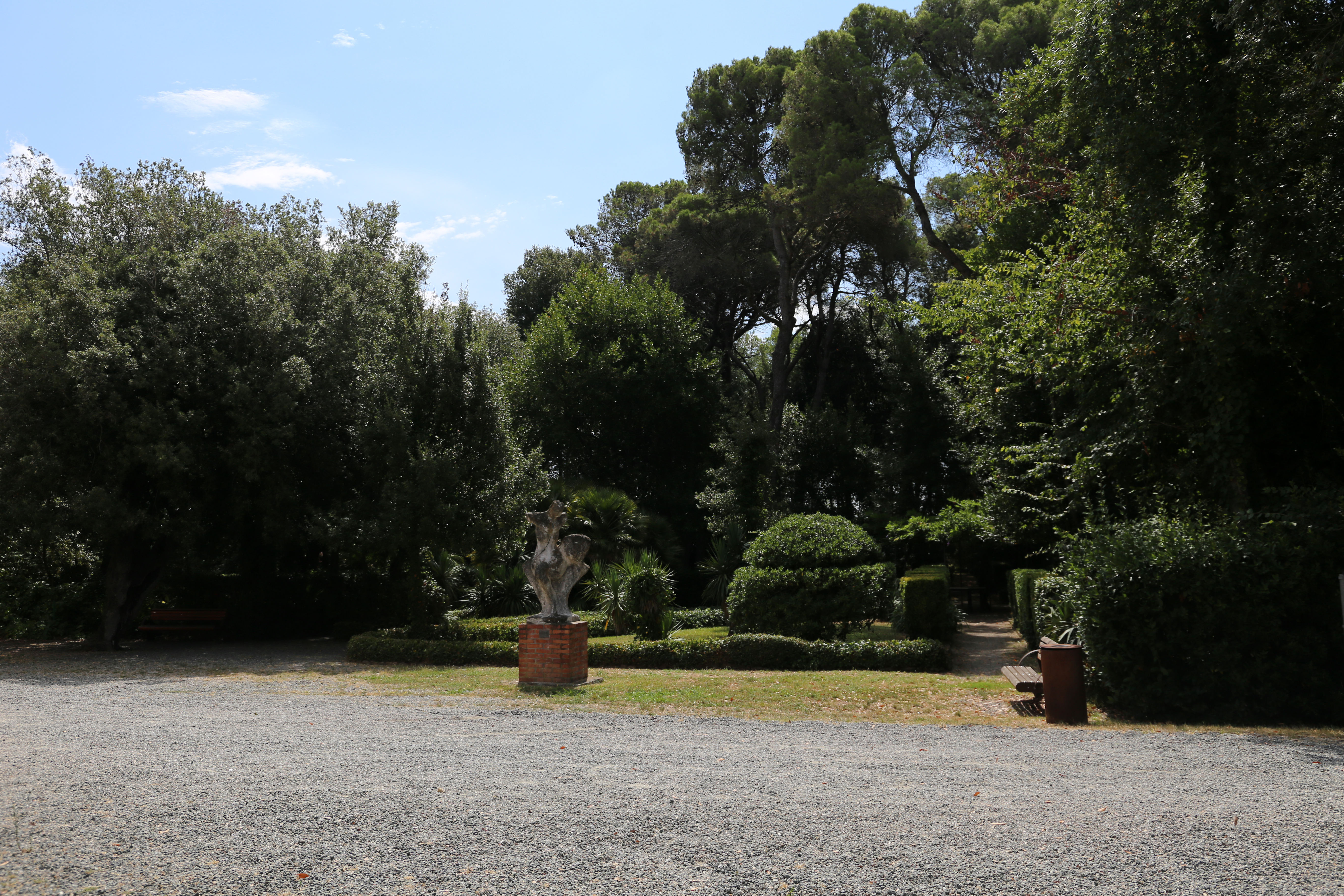 Museo comunale archeologico La Cinquantina (Cecina)